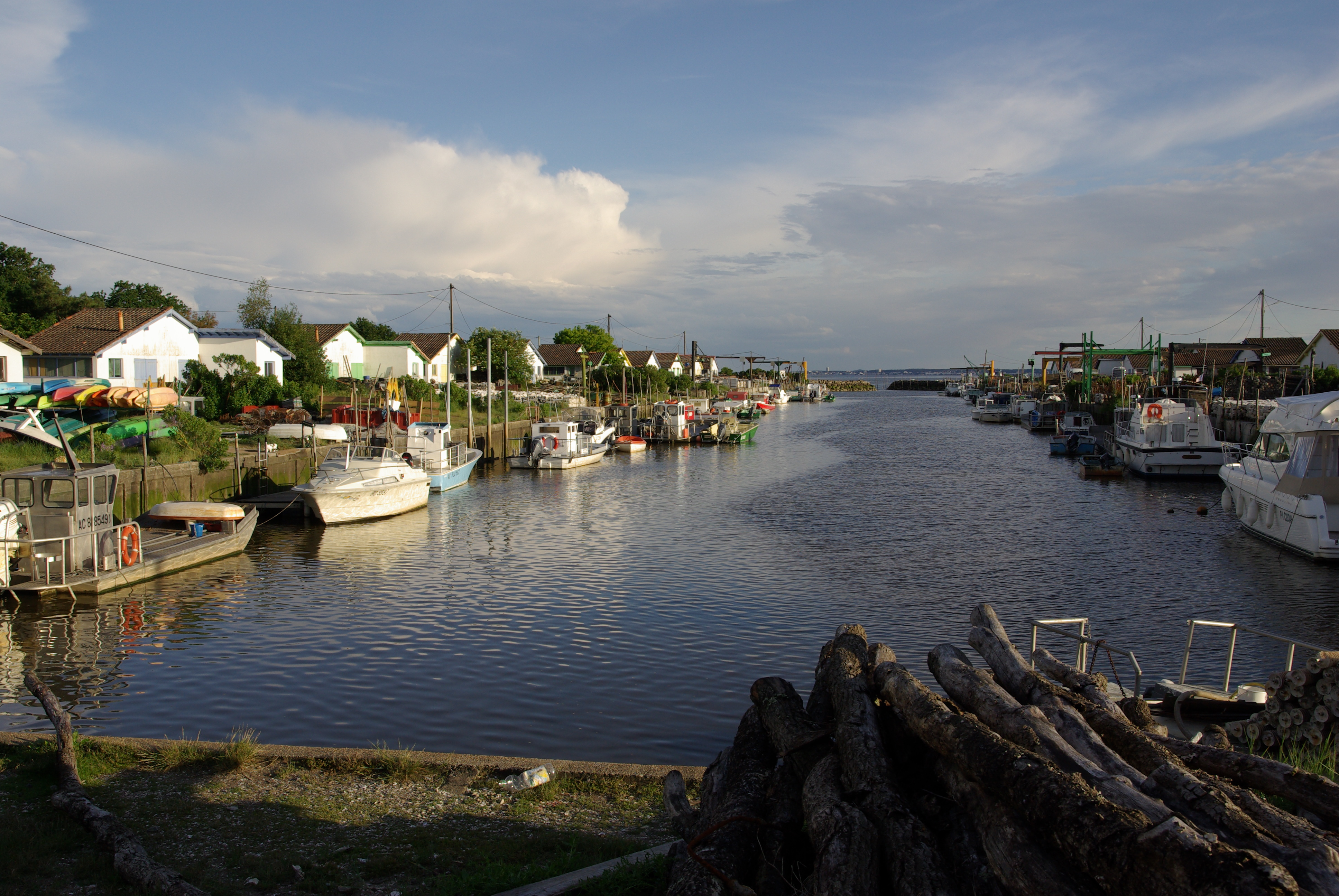 Oyster port of Arès in Gironde 33 France.